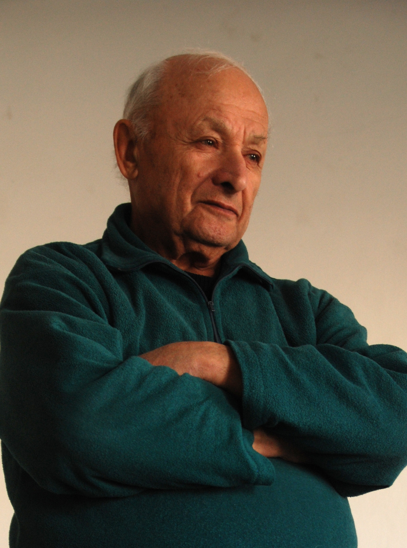 a photo of Hillel Butman